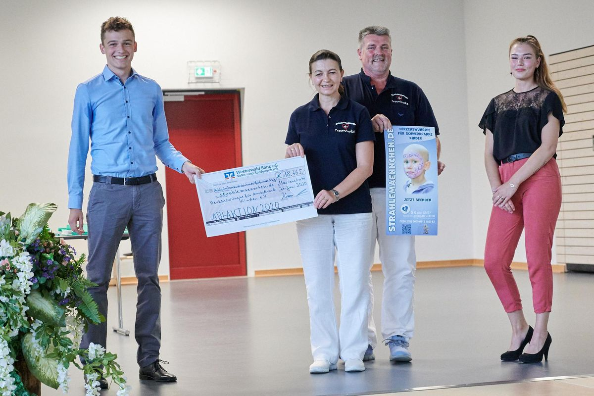 Abiaktion-Spendenübergabe an "Strahlenmännchen" 2020